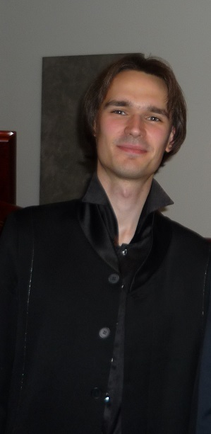 Estonian pianist Mihkel Poll following a recital at the Allegro Pianos showroom in Manhattan in New York.